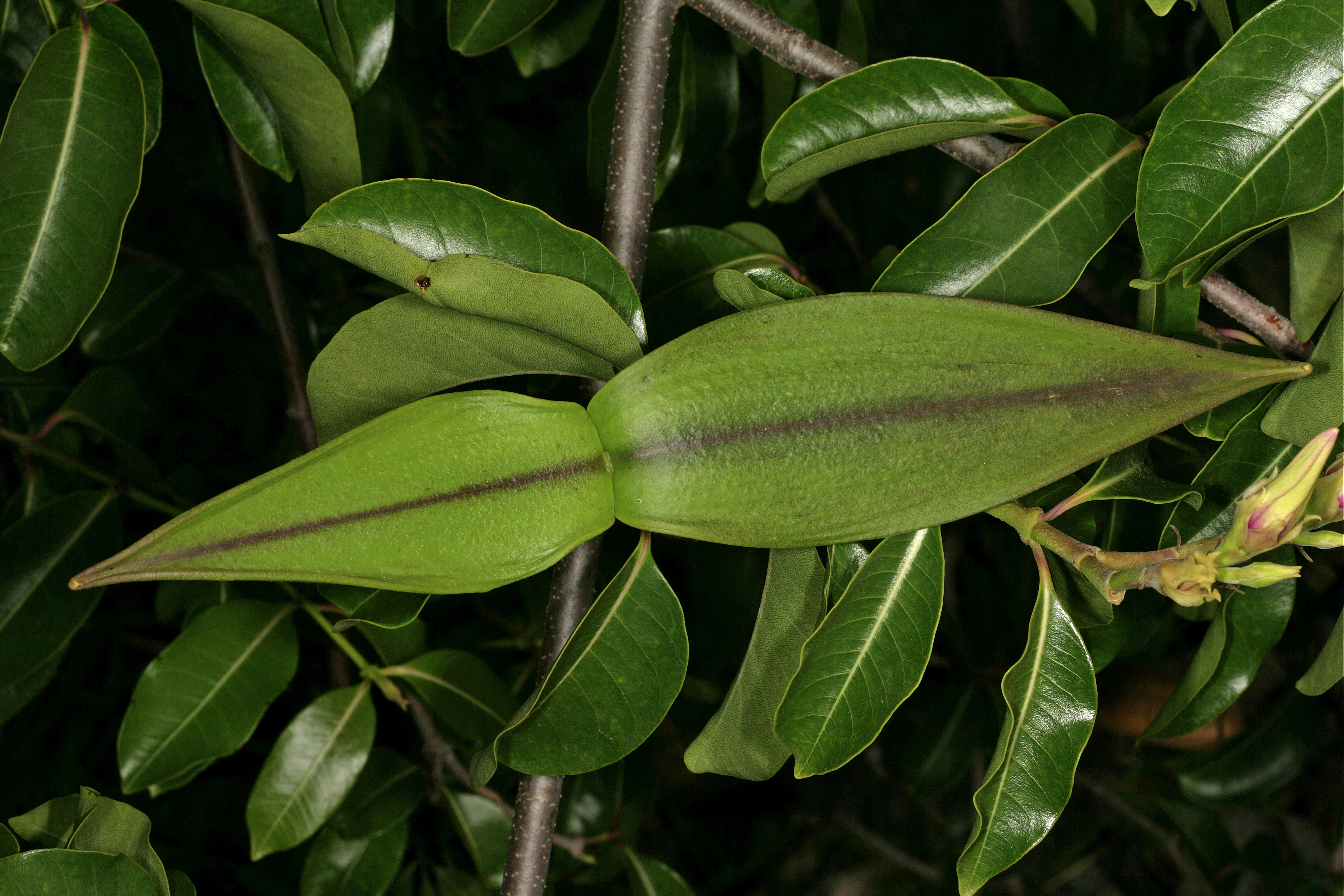 Cryptostegia grandiflora, fruit; locally naturalised in bushveld, Tshipise, turnoff to Schuitdrif along R525, Limpopo, South Africa